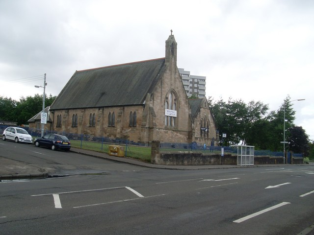 Church on Hamilton Road The banner says "Halfway to Heaven" - anything to do with the nearby village of Halfway?!